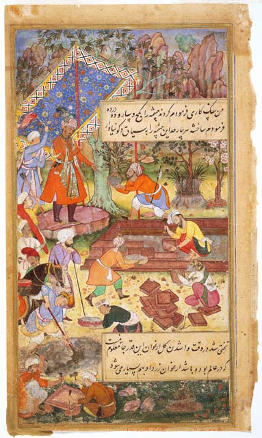 Folio from a "Baburnama" Manuscript: Mughal Ruler Babur Supervising the Creation of a Garden